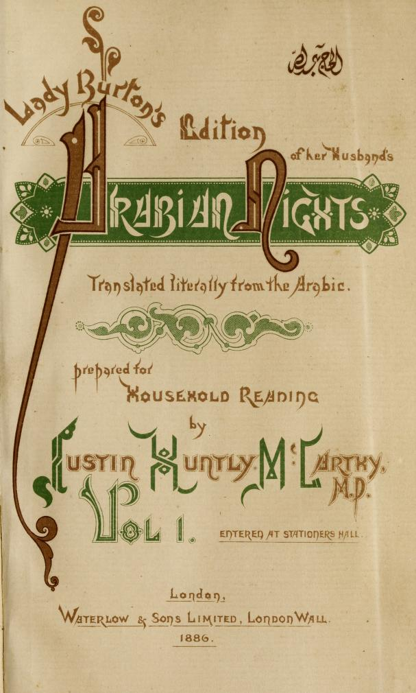 Lady Burton's Edition of Her Husband's Arabian Nights Translated Literally from the Arabic (1886-1888); Prepared for Household Reading by Justin Huntly McCarthy, M.P.; 6 vols.; London: Waterlow & Sons, Limited, London Wall.